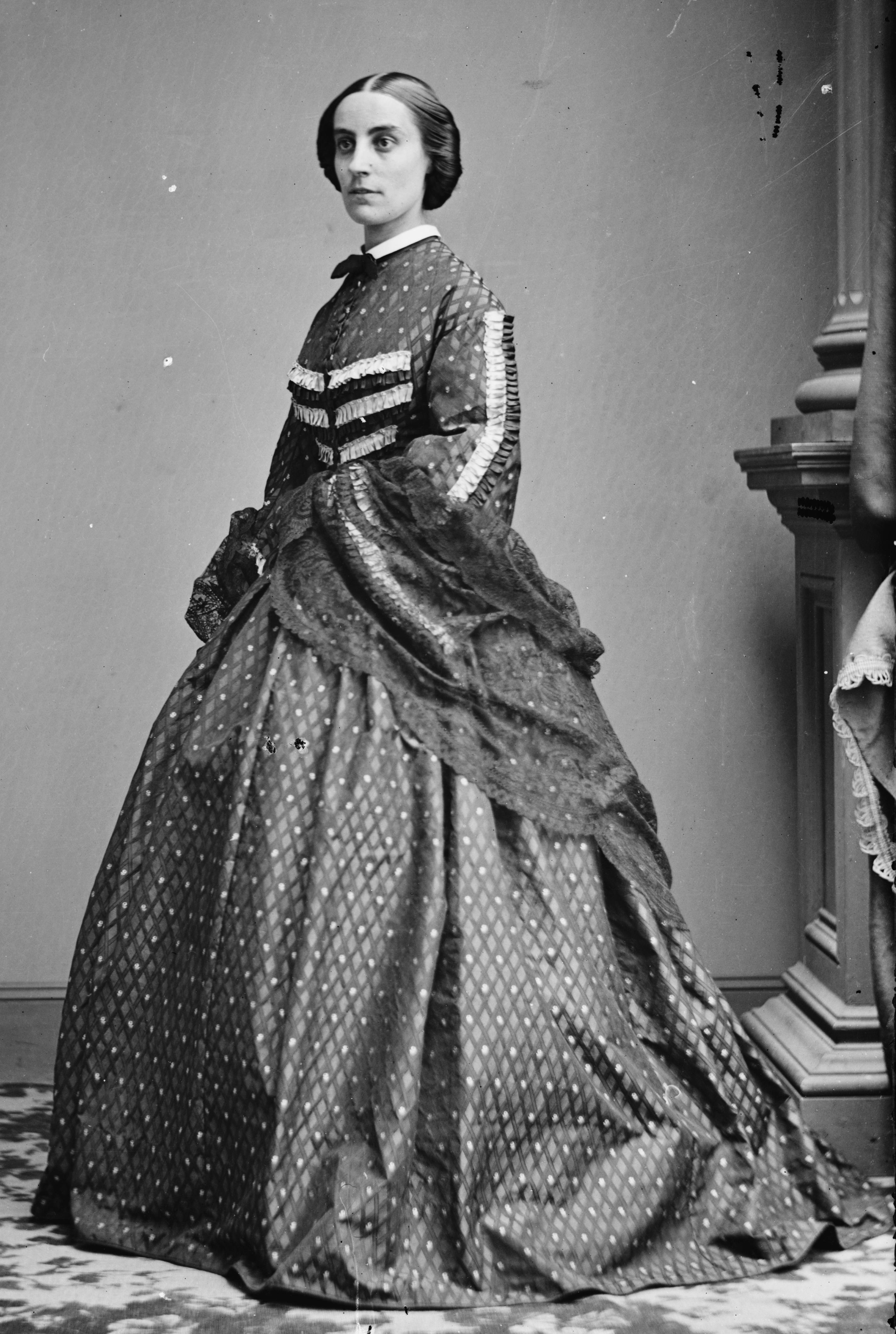 Elizabeth Hamilton, wife of Henry Wager Halleck. Library of Congress description: "Mrs. Henry Wager Halleck".